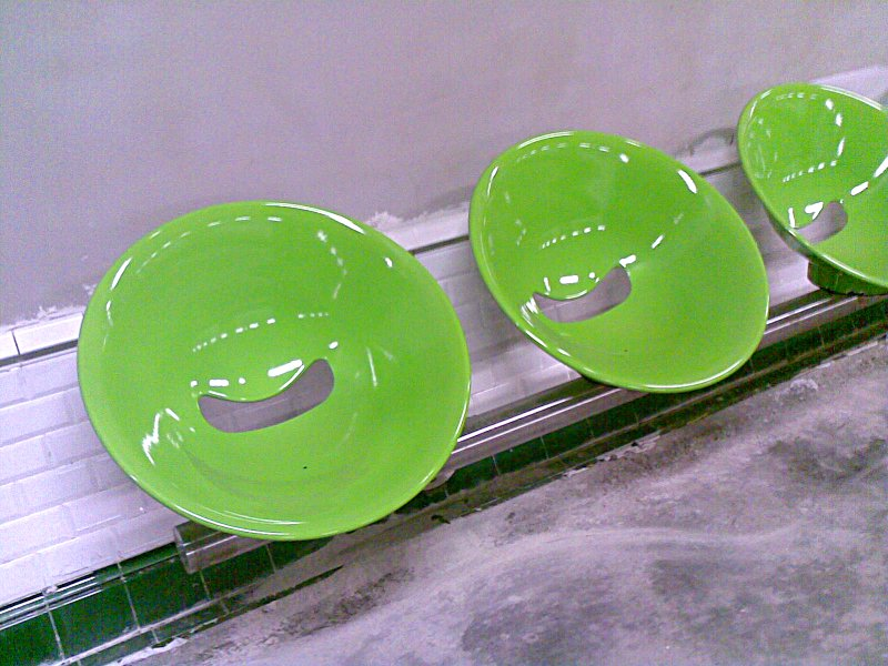 Shell-type seating in Paris Métro